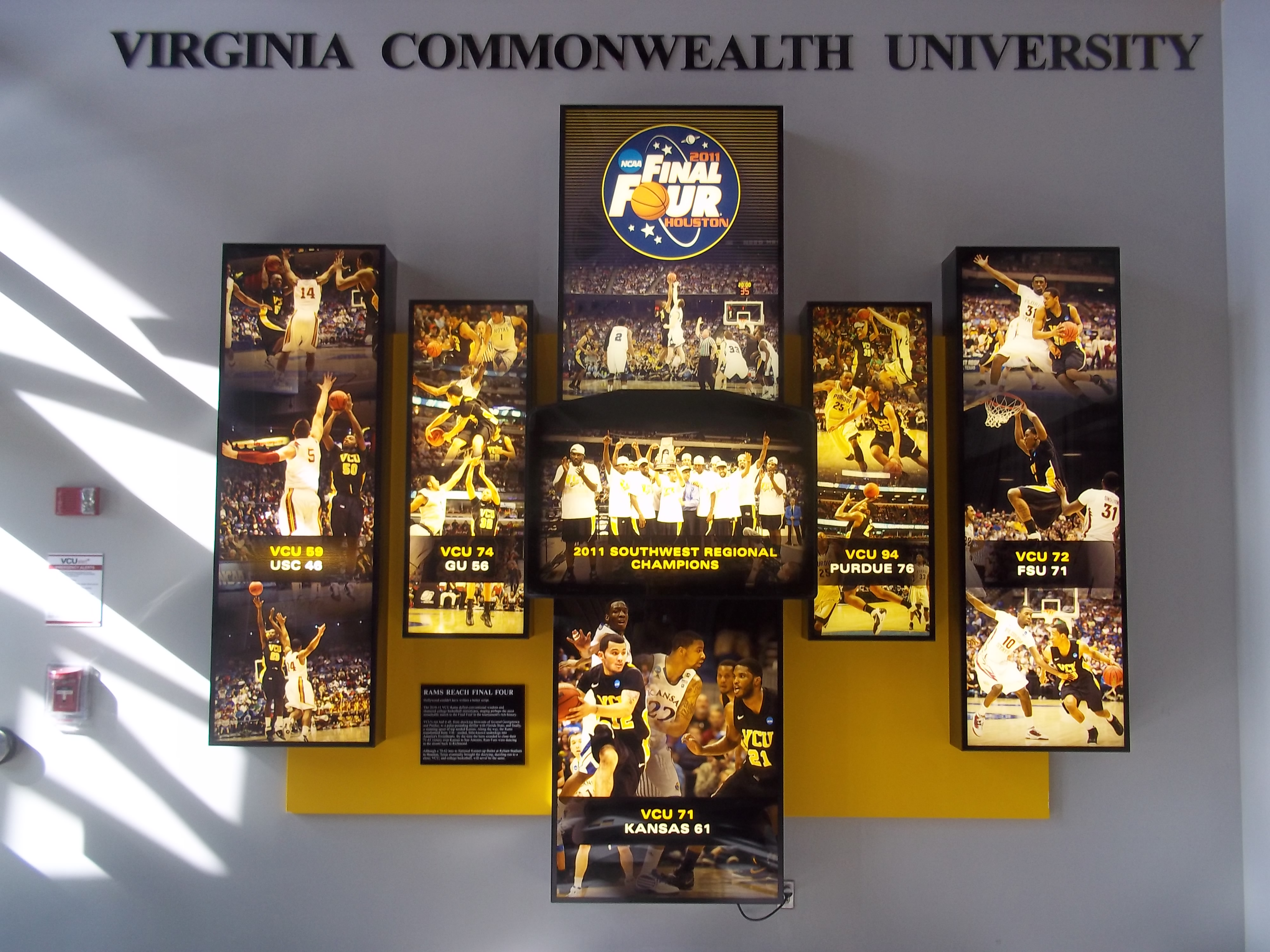 Commemorative Final Four display on the concourse of the Siegel Center